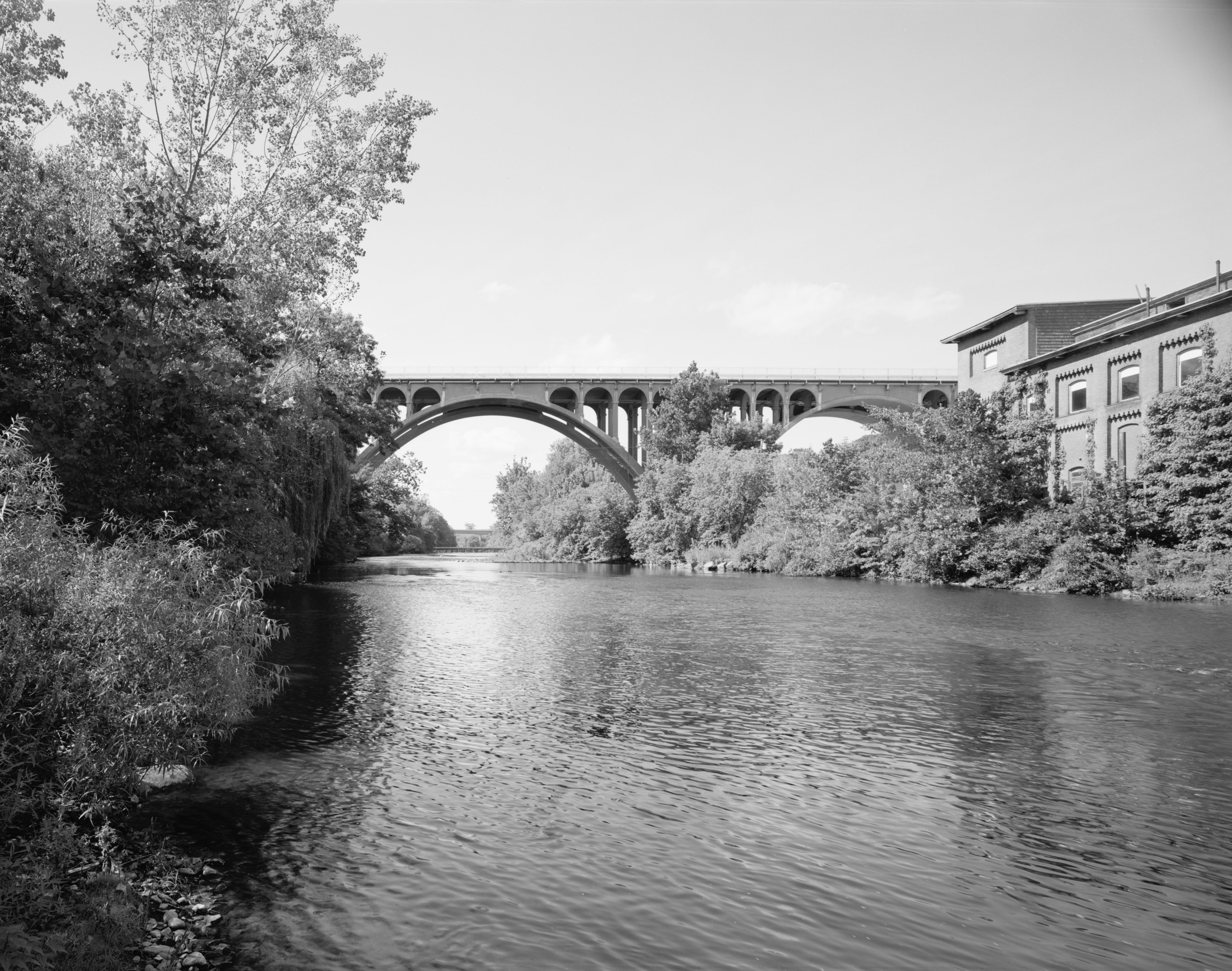 Ashton Viaduct spanning the Blackstone River, Ashton, Rhode Island